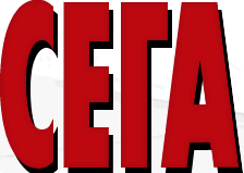 Logo newspaper "Sega"